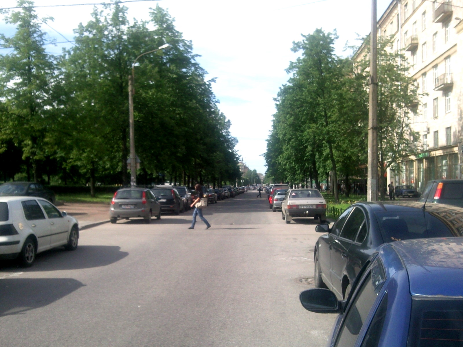 Demonstratsionny Proezd (lane) in Saint Petersburg, Russia